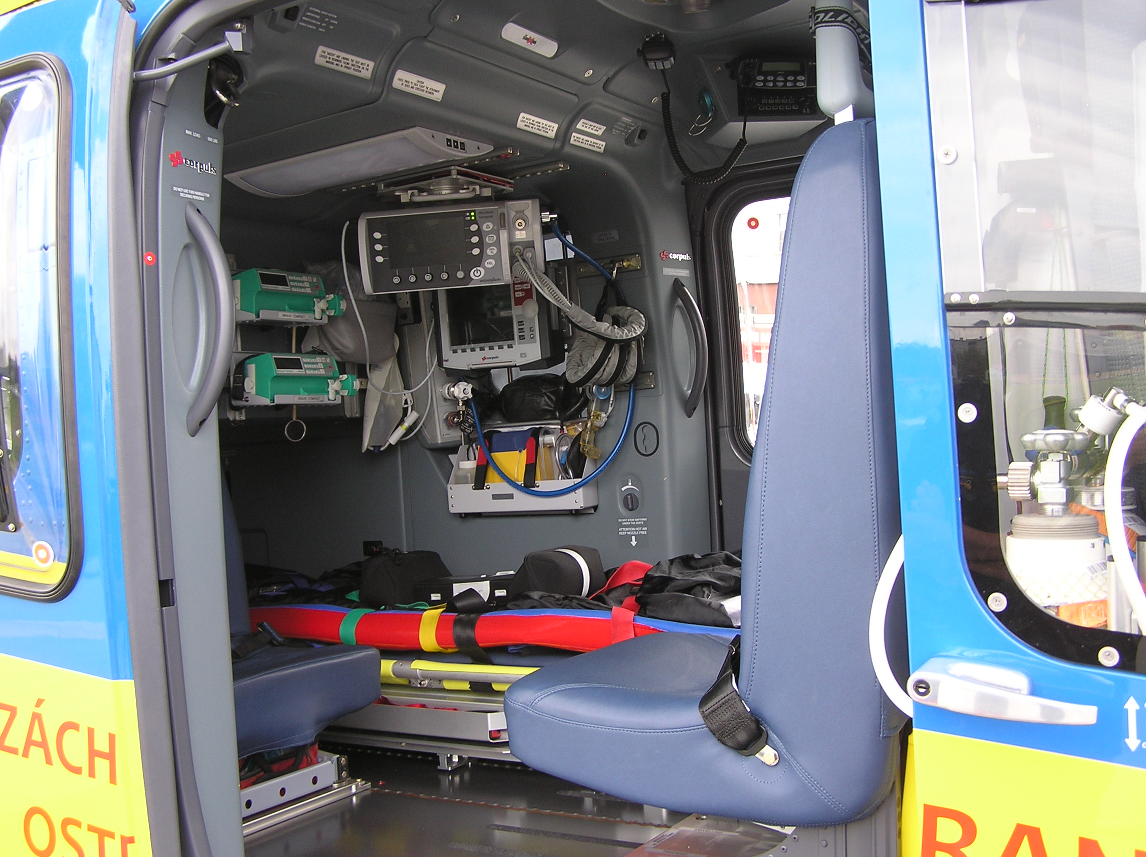 Rescue helicopter of the Moravian-Silesian Region in the Czech Republic, Kryštof 05, EC 135 T2+, Ostrava